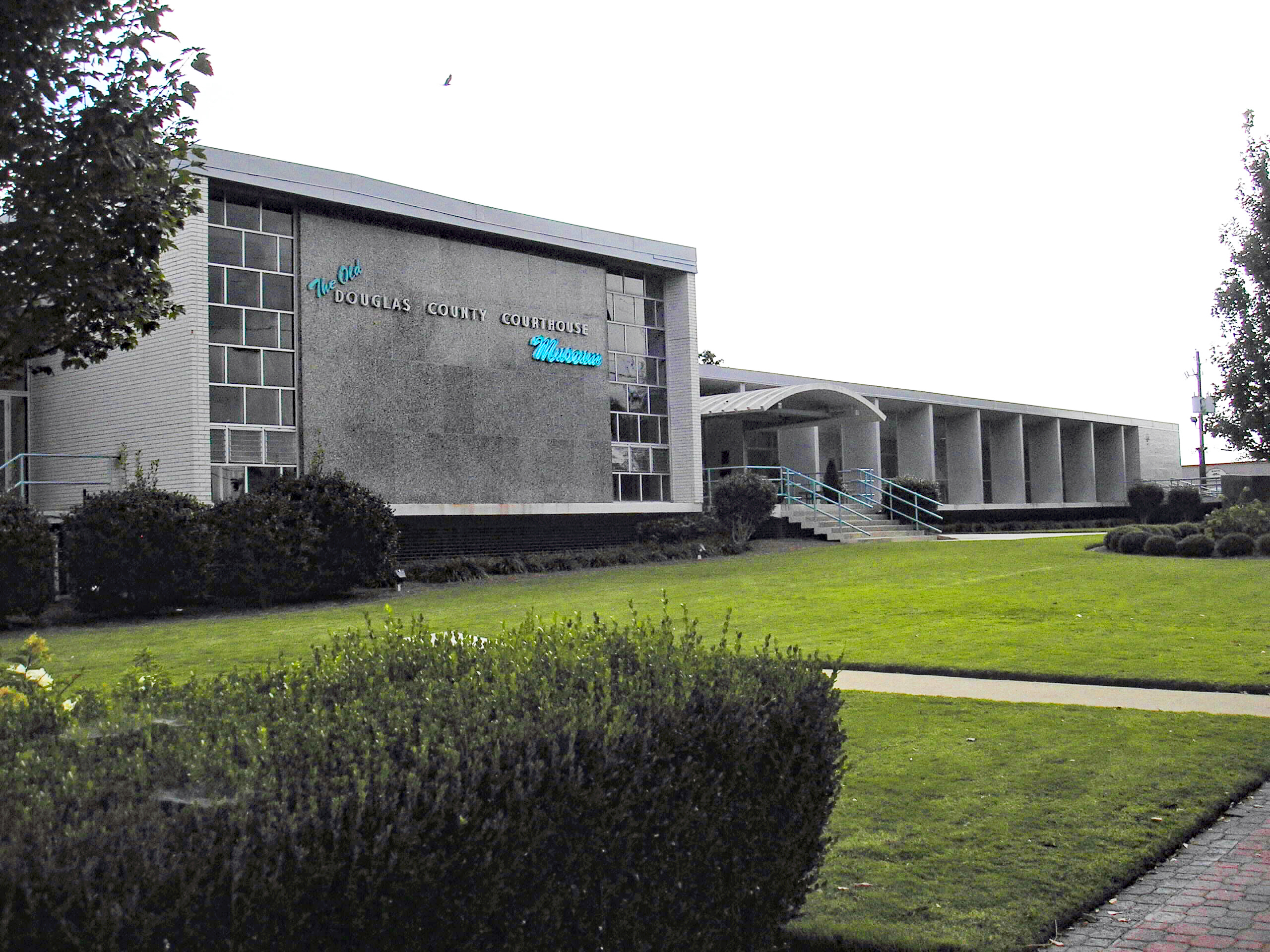 The Old Douglas County Courthouse which is now a museum, located on US78 (Bankhead Highway/Broad Street) and parallel to the Norfolk Southern railroad tracks.